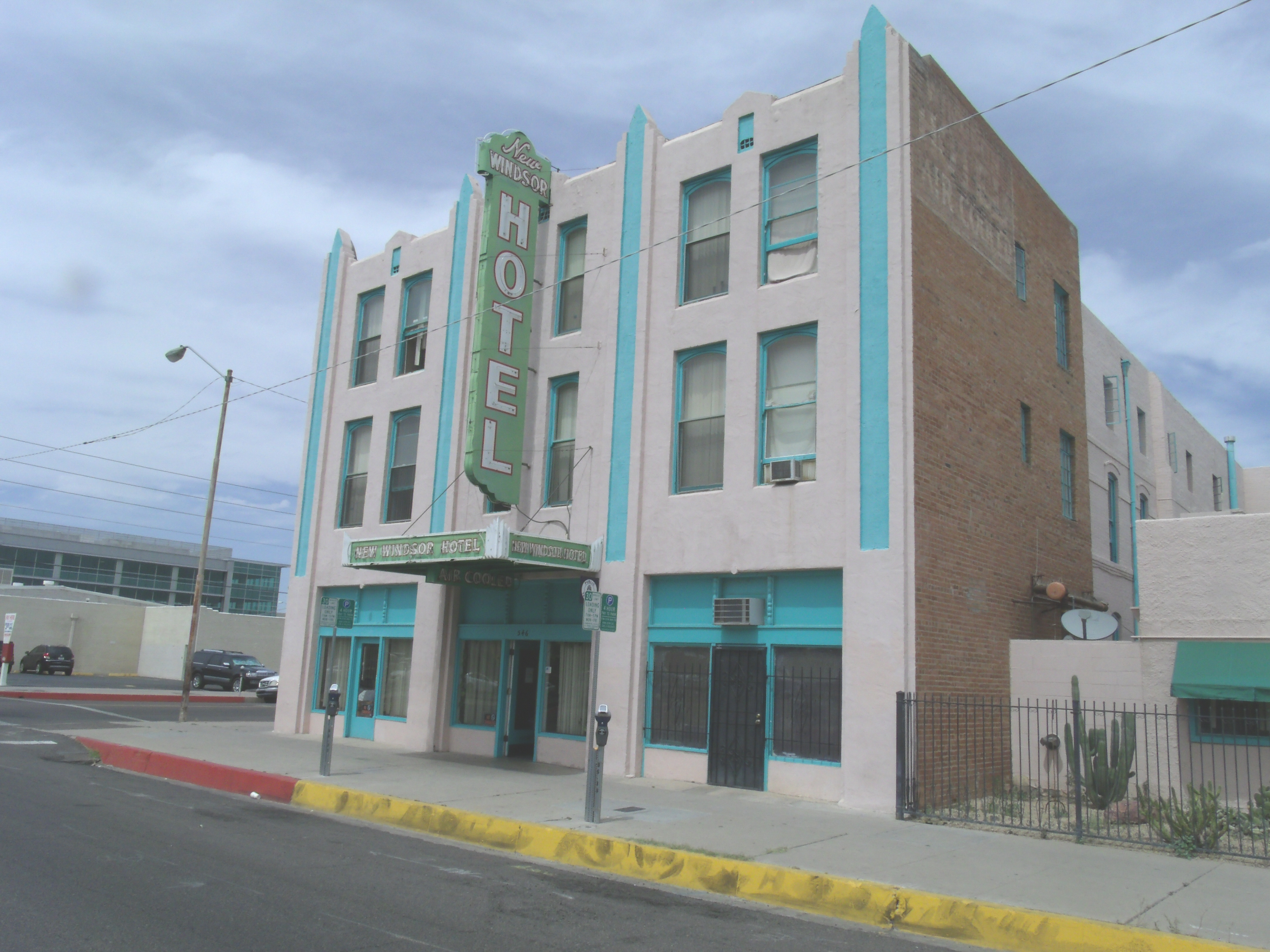 The construction of the Historic Windsor Hotel {NRHP), originally the "6th Avenue Hotel" was completed in 1893. The hotel is located at 546 W. Adams St., Phoenix, Arizona.